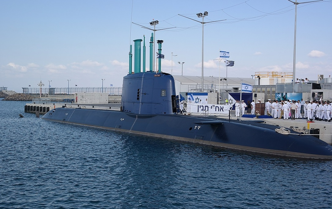 INS Tanin - the new Dolphin II class submarine of the Israeli Navy during the welcome ceremony in Haifa nava base. Just arrived after a long journey from the manufacturer (TKMS-HDW shipyard) in Kiel, Germany.